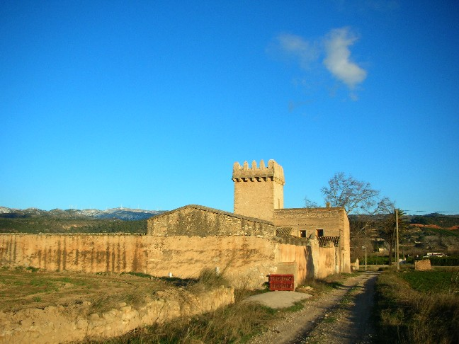 La Torre del Prior. Medieval building close to Jesus, a village near Tortosa, Catalonia